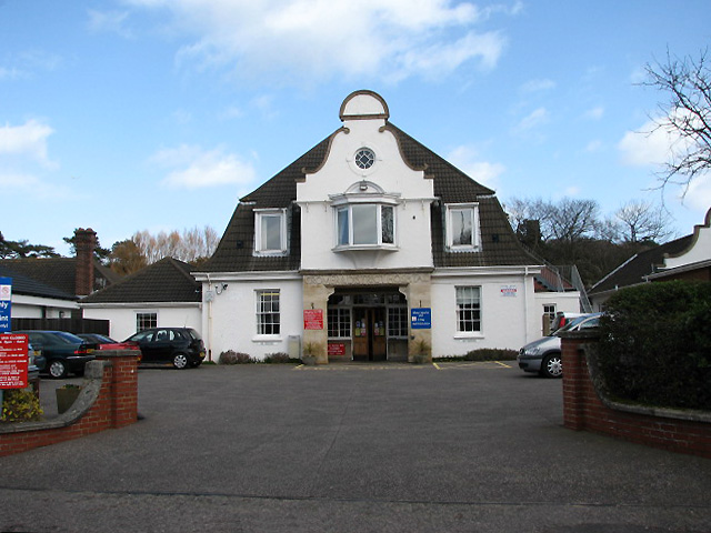 The entrance to Cromer Hospital, Norfolk. Demolished to make way for new Hospital in 2011/2012.